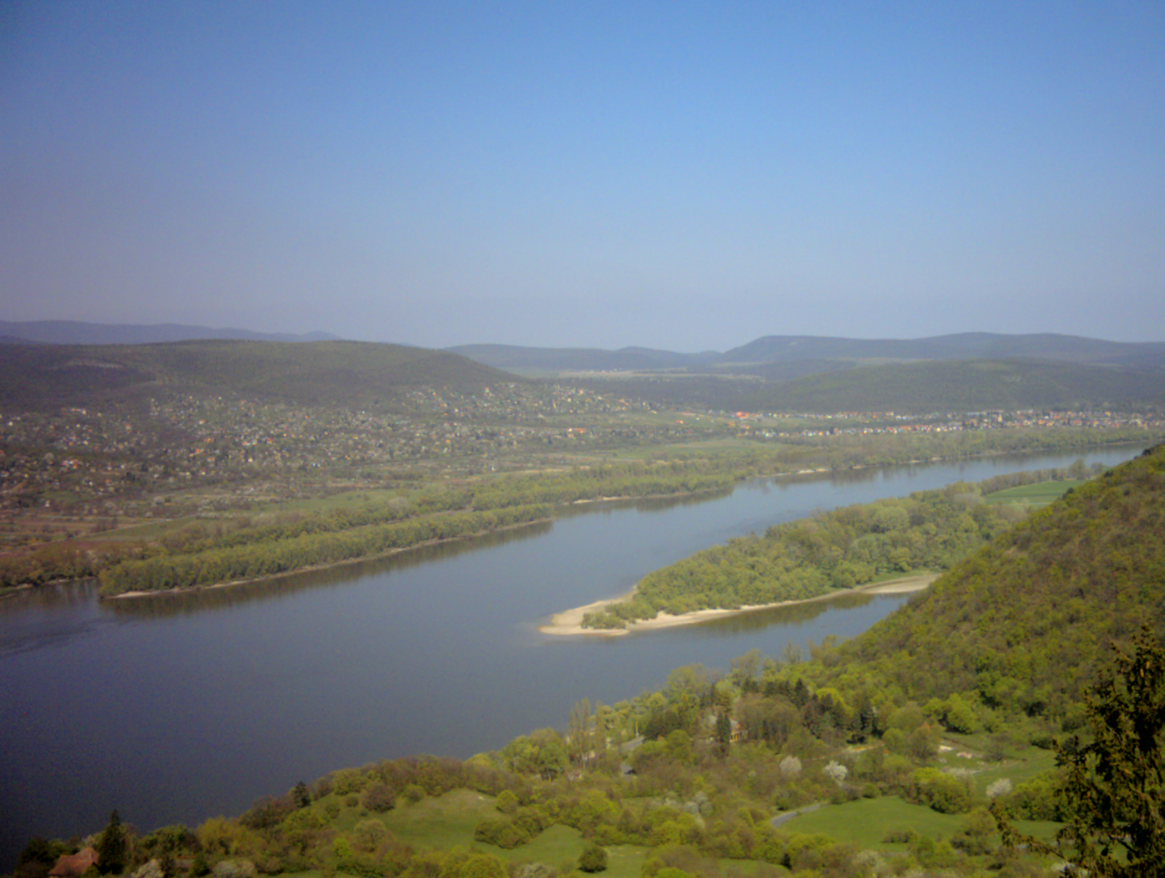 The Danube River, and the Szentendre island, from Visegrad citadel. Judging from the map, the town that can be seen is probably Verőce.